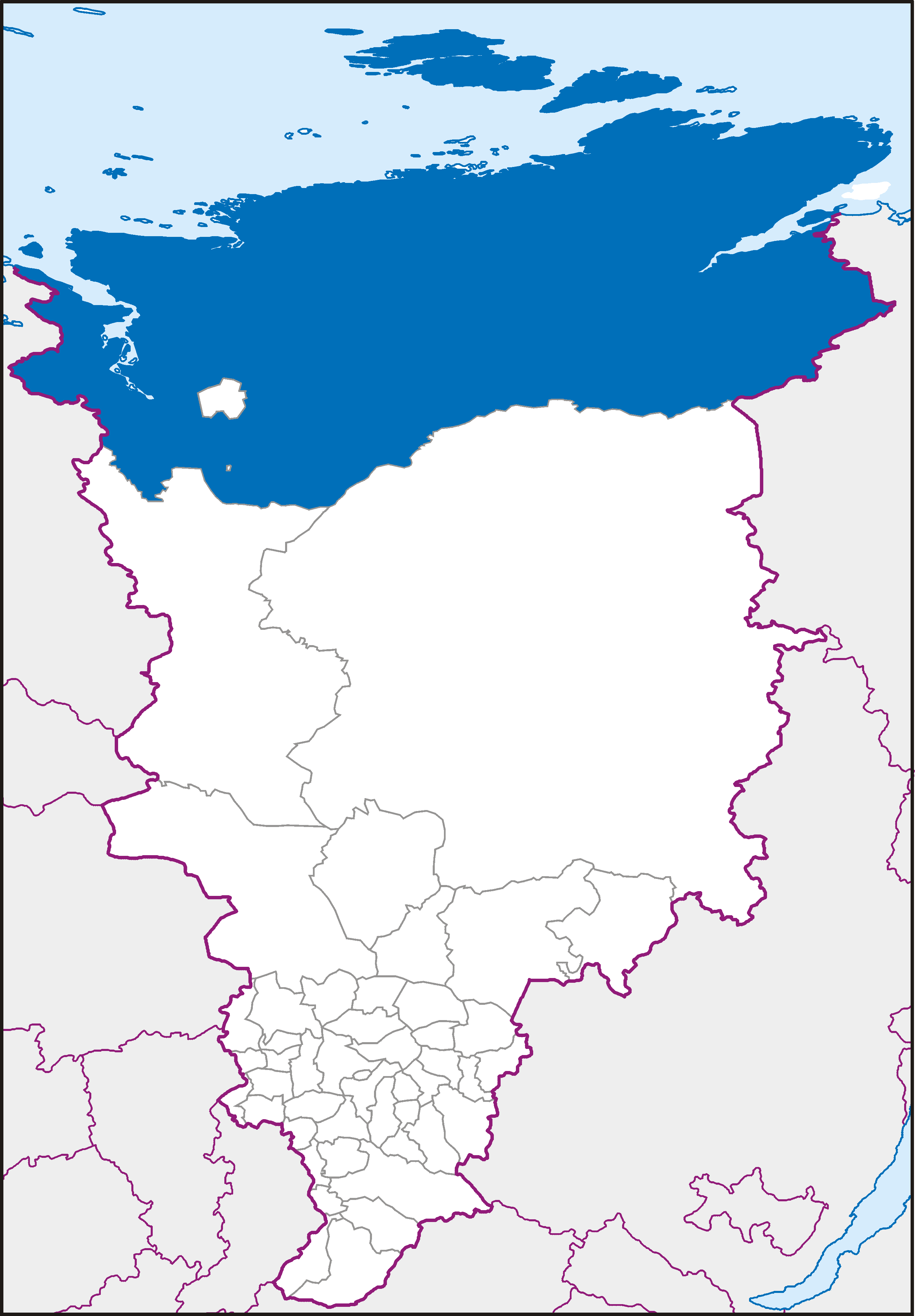 Map of Krasnoyarsk Krai in Albers Equal-Area Conic projection (Central Meridian = 95° E)